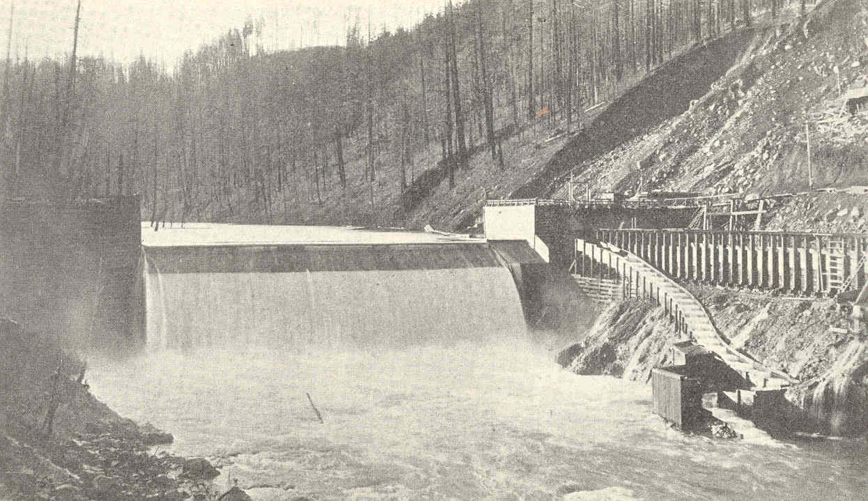 Portland Railway Dam and fish ladder on the Clackamas River at Cazadero, in the United States